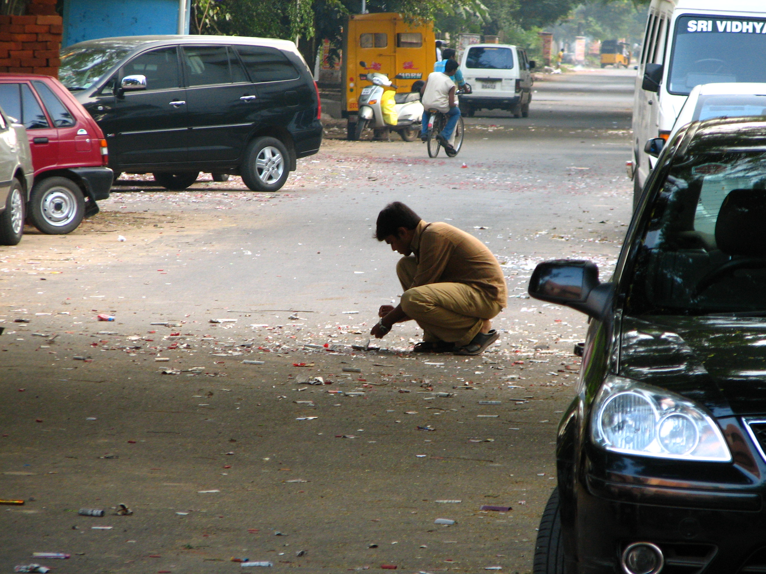 A neighbour lighting firecrackers on my street in Chennai. By the afternoon here the street was carpeted with the paper corpses and detritus of the thousands and thousands of crackers that had been lit off since pre-dawn (it was another of those poor sleep mornings). This went on solid for a couple days. But can't beat ‘em, join ‘em, and who doesn't like crackers, fireworks and sparklers? So not wanting to miss the fun, we bought some and joined in the explosion-setting and ear-drum damaging fun. But for the cheap prices, we got far more crackers than we had the enthusiasm or hearing to light and gave some away to over-stimulated neighbourhood kids. The fuses are short and these ones he was lighting were especially giant (and above the 125-decibel legal limit for officially approved crackers) so you got it lit and ran. Which, incidentally, is exactly the instructions on the package: "Set on ground. Light fuse. Get away quickly." Helpful, and accurate. The joyful panic of this was added to as we didn't know what exactly we had bought so what it might do once we lit it and the inconsistency in fuse burn rate, but no injuries were had.